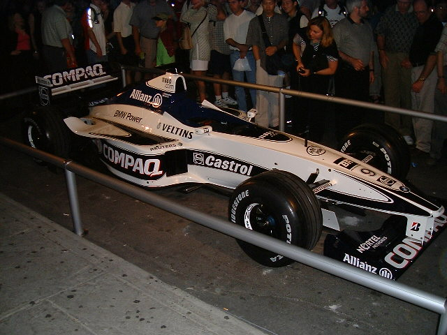 Williams FW22